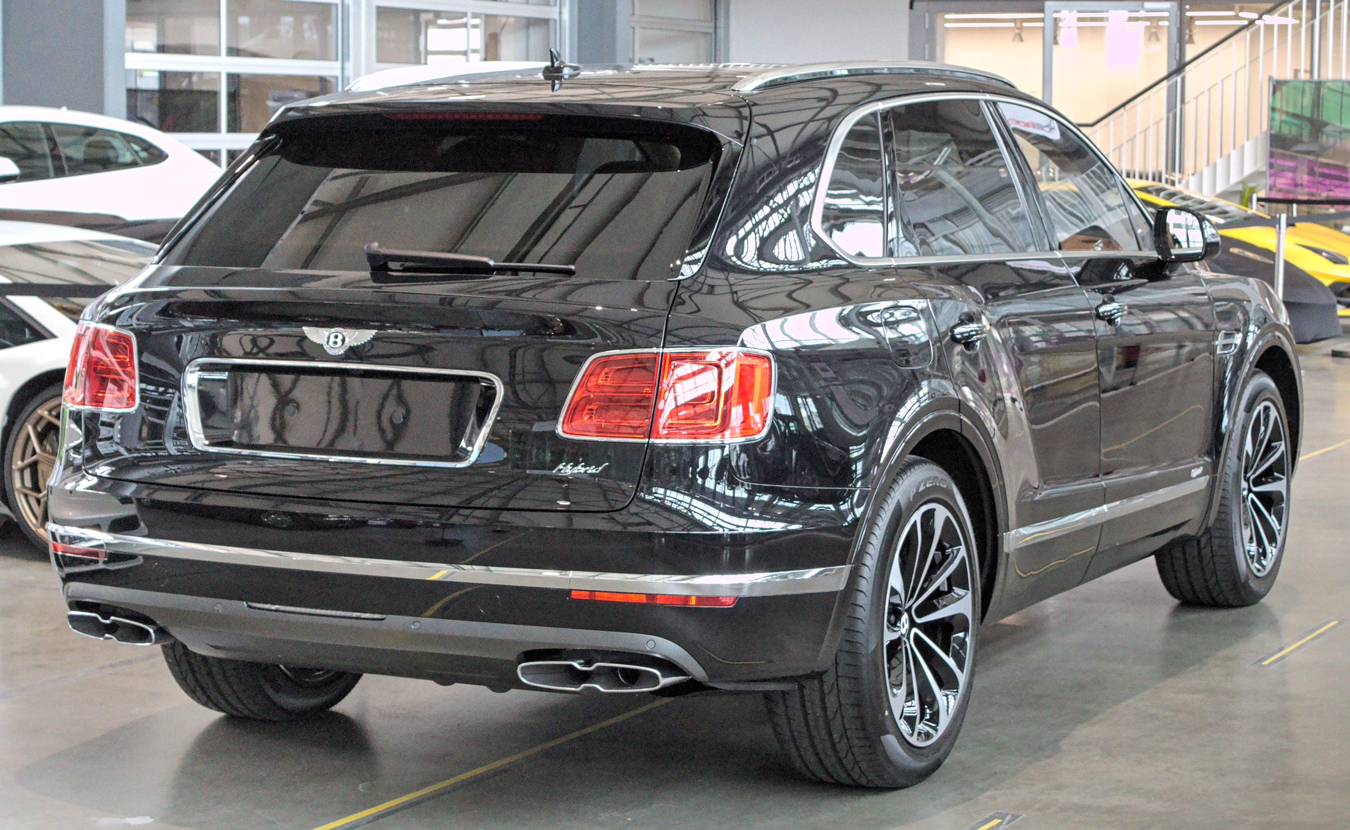 Bentley_Bentayga_Hybrid in Böblingen